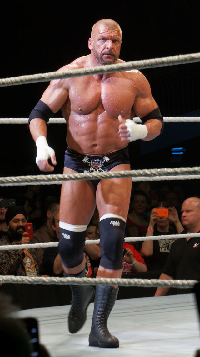 Triple H